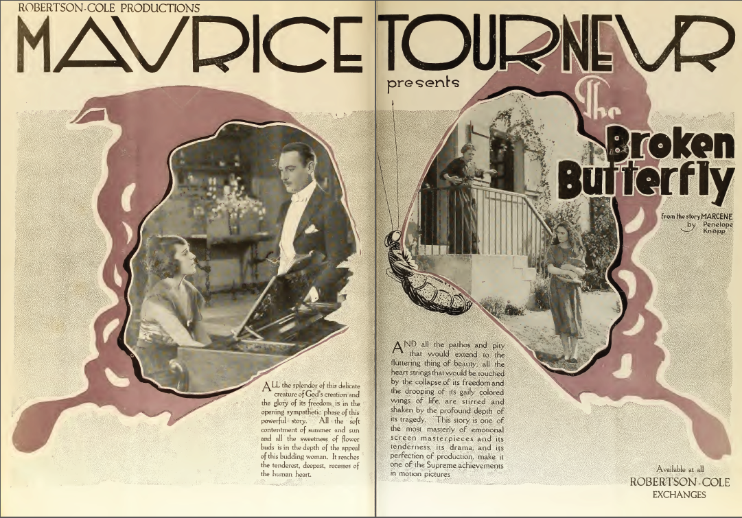 Ad for Maurice Tourneur directed film The Broken Butterfly (1919).